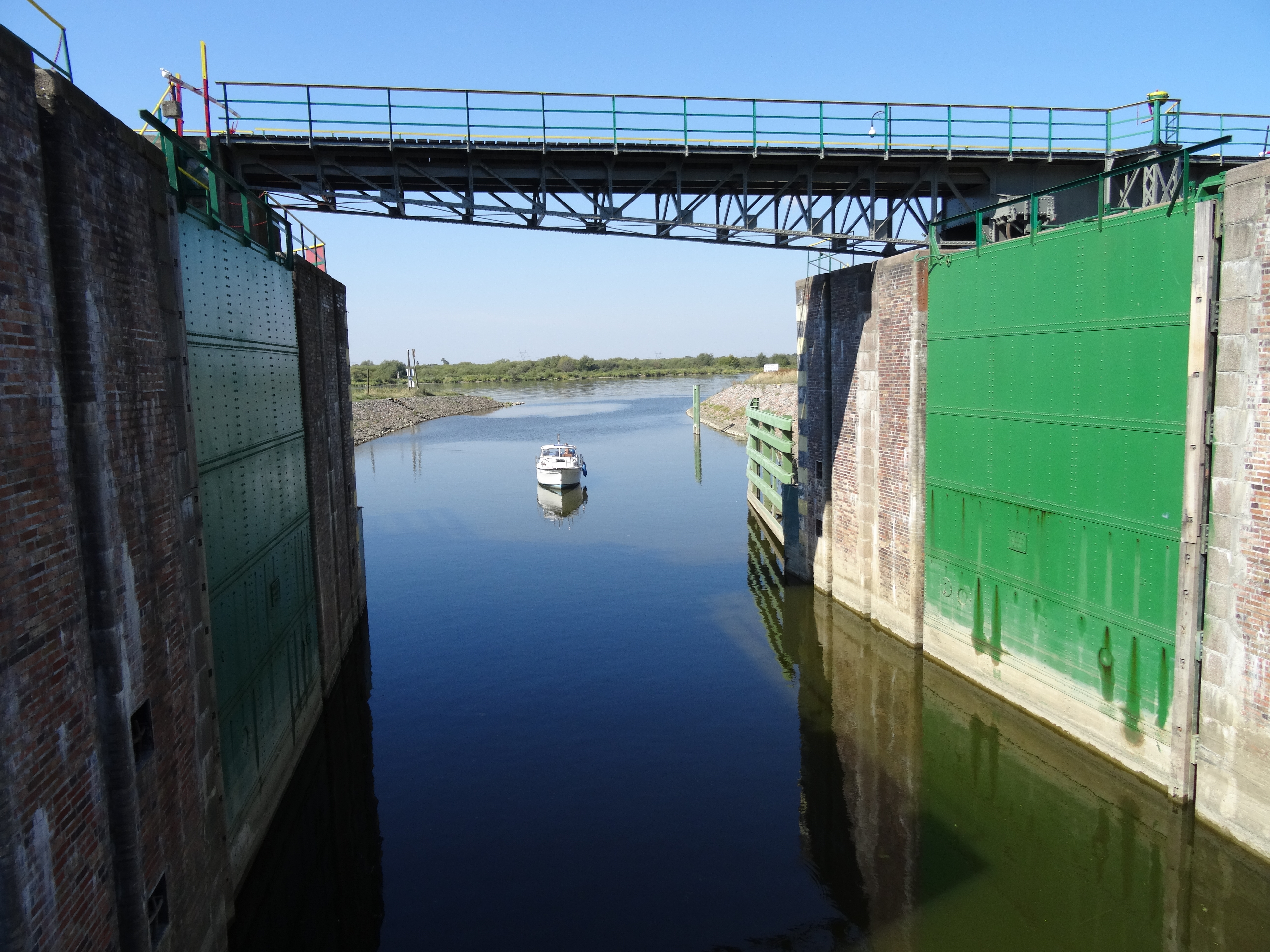 The Gdanska Glowa floodgate, 1895